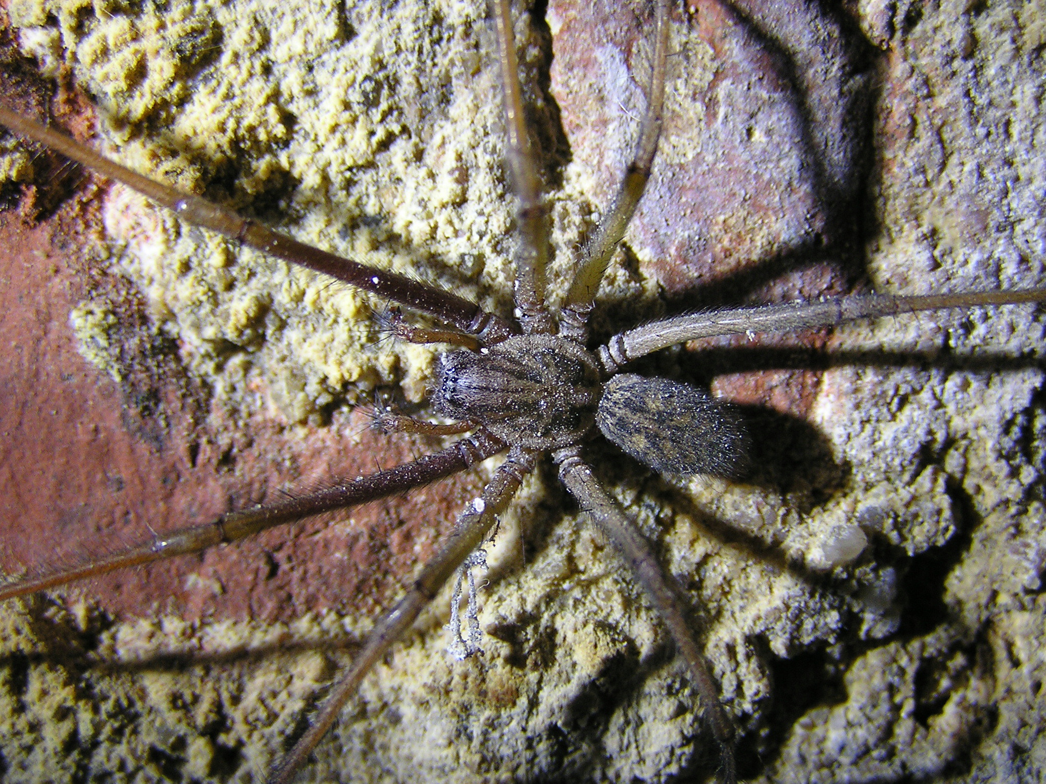 Tegenaria atrica on a cellar wall